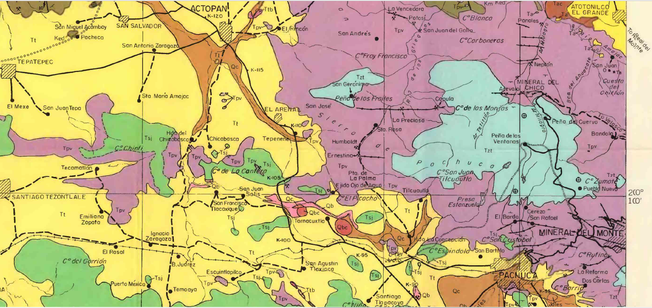 Pachuca USGS Geology Map